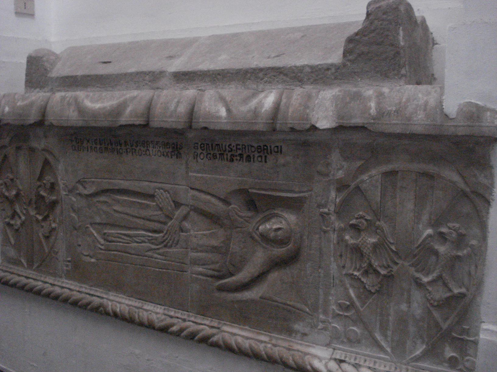 William Duke of Athens' tomb